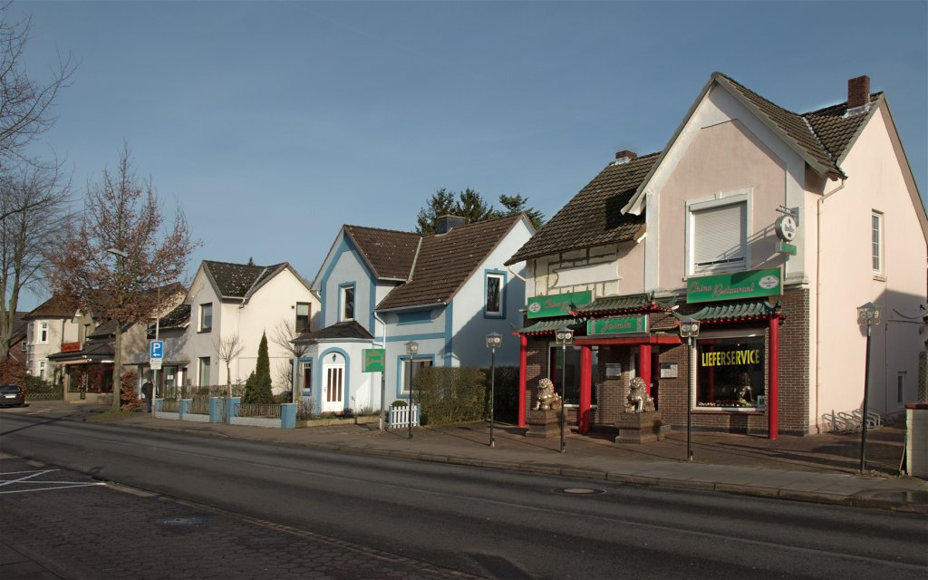 Tornesch (Schleswig-Holstein, Germany), Friedrichstraße 22-28 - construction period: 1900 and following years - photo 2008 - The pictured houses were all created before the First World War. They are simple residential buildings with a side risalit. Some of them contain in addition to the apartments also stores. At the far end is the former "Blumenhaus Sonja" (No. 28). In front you can see the Chinese restaurant "Jasmin" (No. 22). There was until 1967 a branch of the consumer cooperative "Produktion". - The house building in today's Friedrichstraße began on the railway side from 1889. At that time the unpaved road was called Moorweg. Housing was created for the employees of the railway and the first industrial companies. The consolidation of the Moorweg up to Norderstraße and its renaming to Friedrichstrasse took place in 1912. The street soon developed into a shopping and service street. Object location53° 41′ 56.69″ N, 9° 42′ 38.9″ E